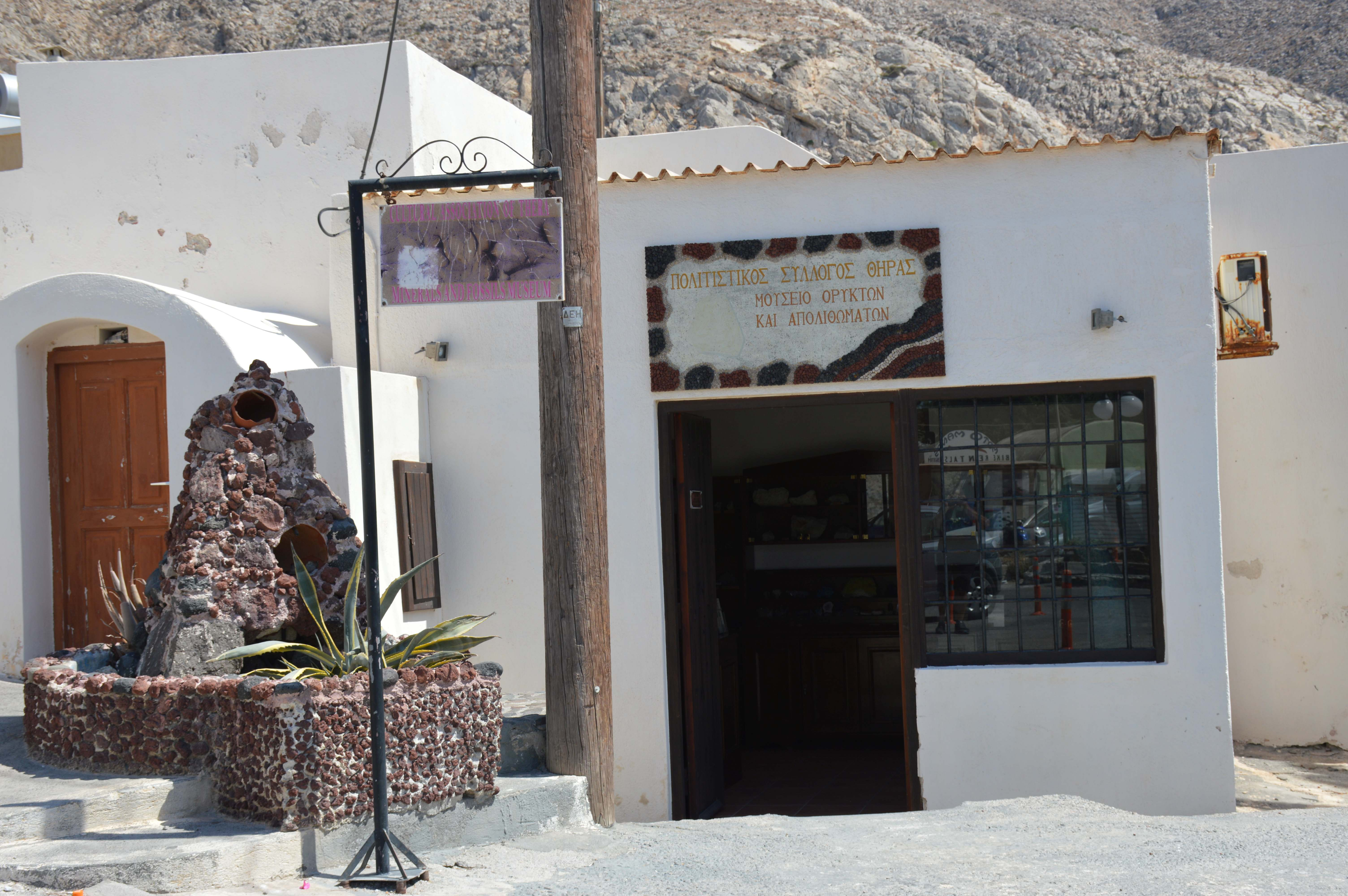 Museum of Minerals & Fossils, Santorini, 2016